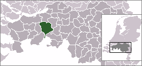 Location of Breda